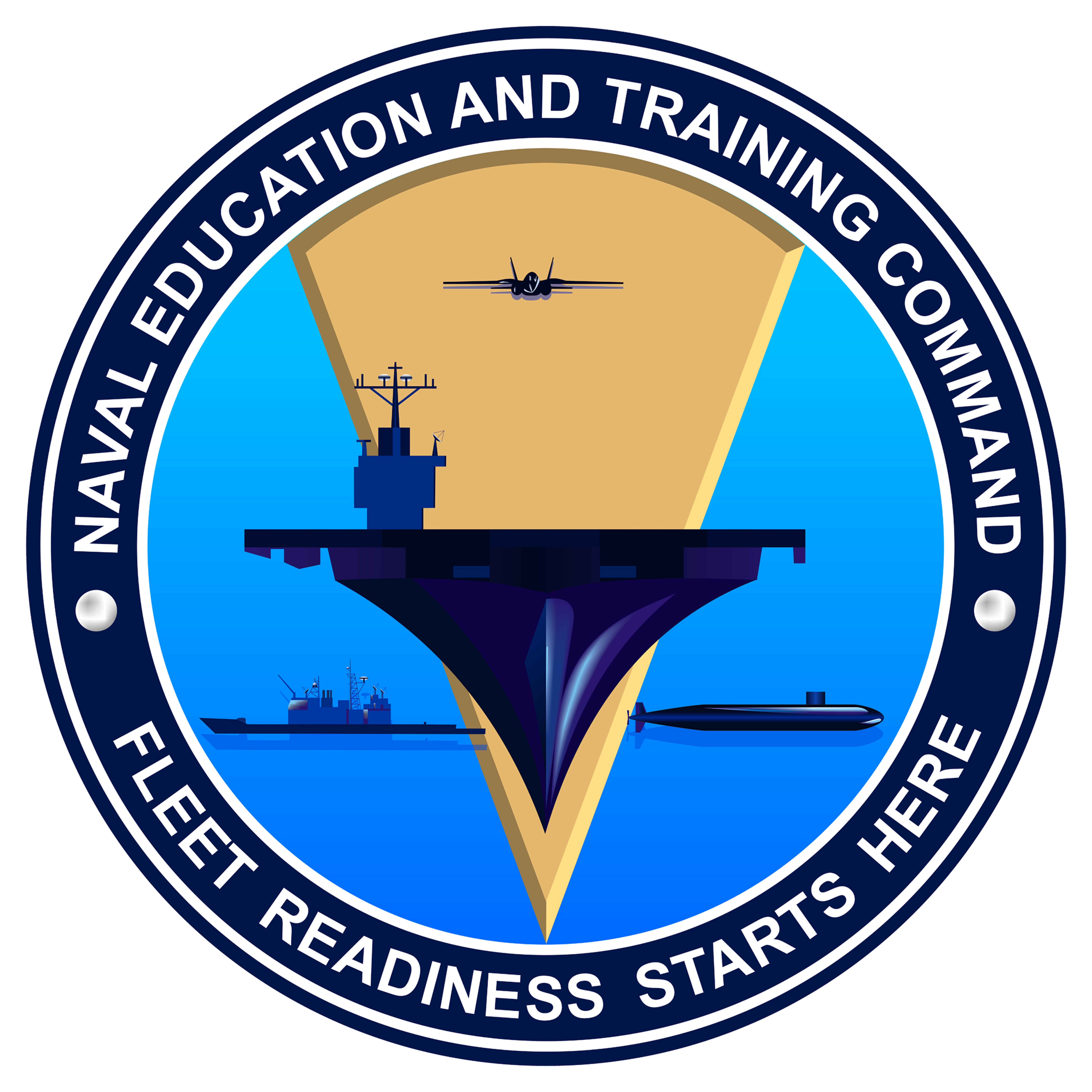 120820-N-PK678-001.PENSACOLA, Fla.(Aug. 20, 2012) The new Naval Education and Training Command (NETC) Logo. NETC announced changes to its command logo and a new mission statement Aug. 20. The new logo removes the depiction of the 5-vector model and the new mission statement is ???Fleet readiness starts here.??? (U.S. Navy photo.illustration/Released)